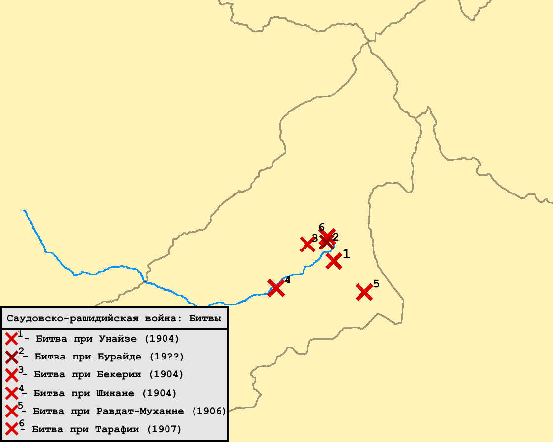 Map of Battles of the Saudi-rashidi war (1903-1907)